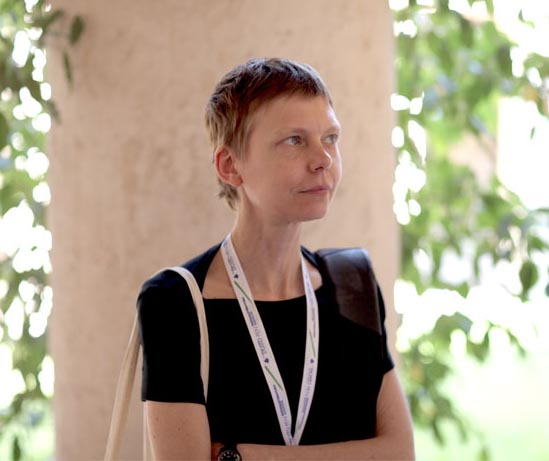 Stacy Hardy at Festivaletteratura 2010 (Mantua, September 2010)